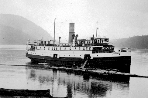 Steamship Cowichen, circa 1918.